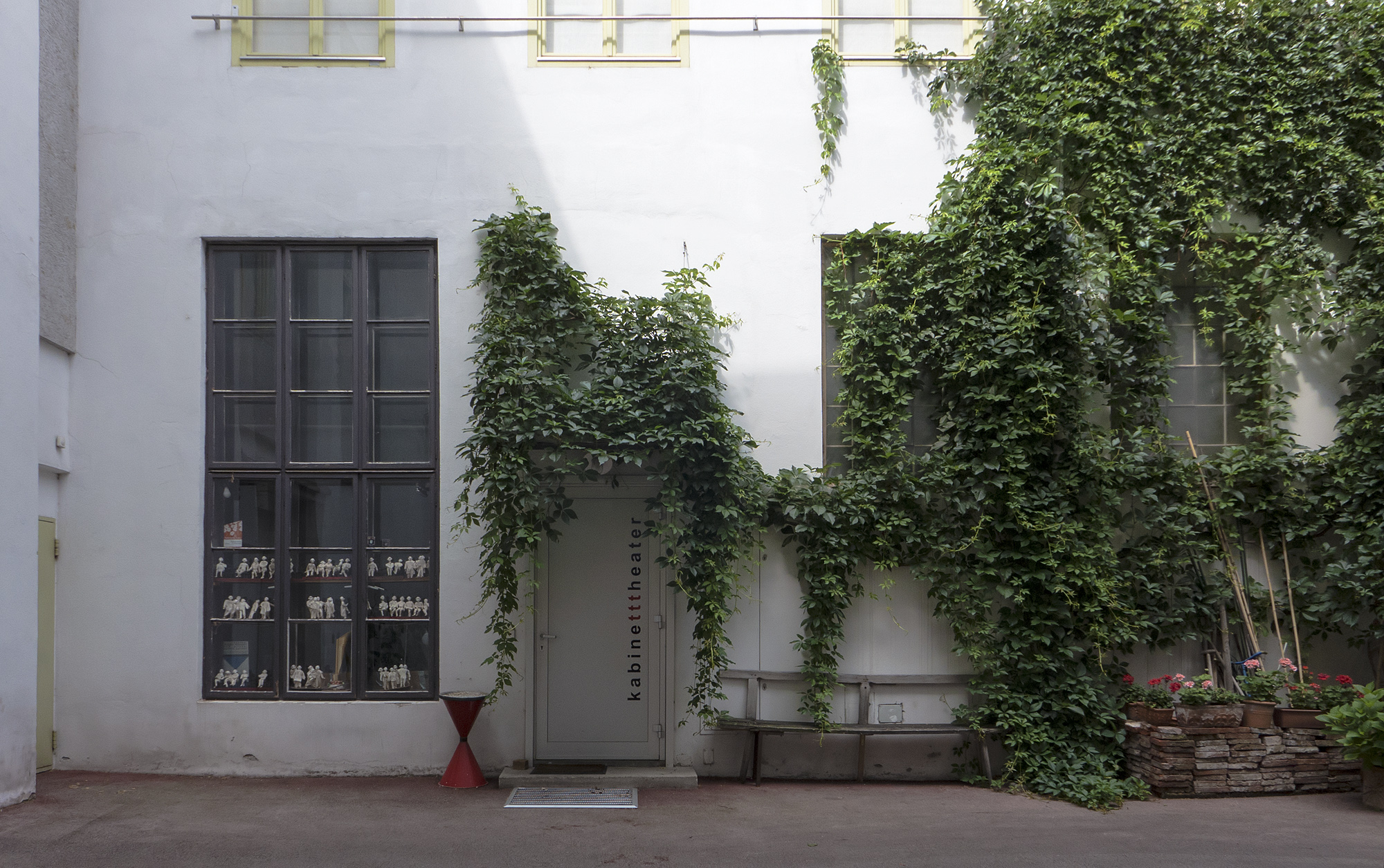 Theatre Kabinetttheater in Vienna 9